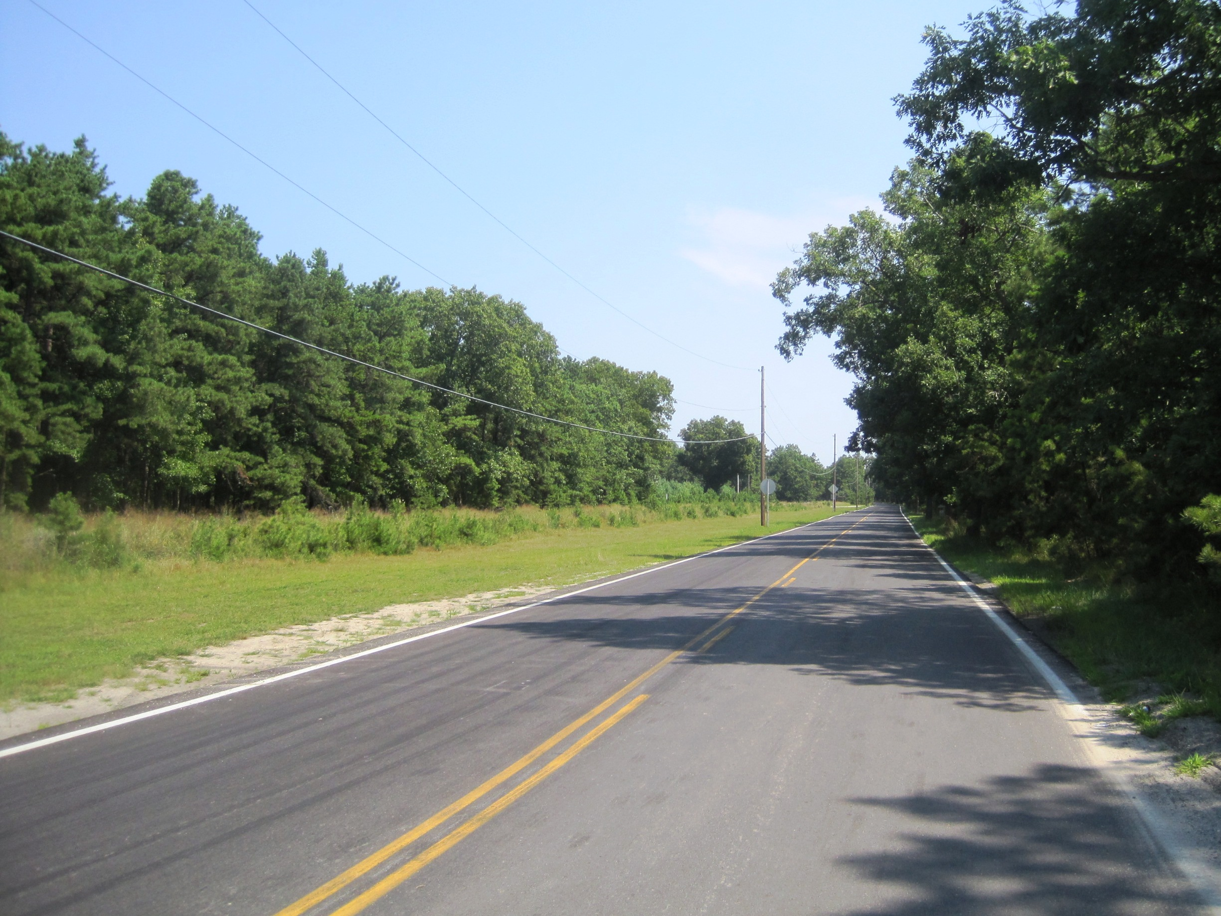 Photo of Bullock, New Jersey, an unincorporated community in Manchester Township, Ocean County and Woodland Township, Burlington County. Location is on eastbound Pasadena Road past the railroad crossing.